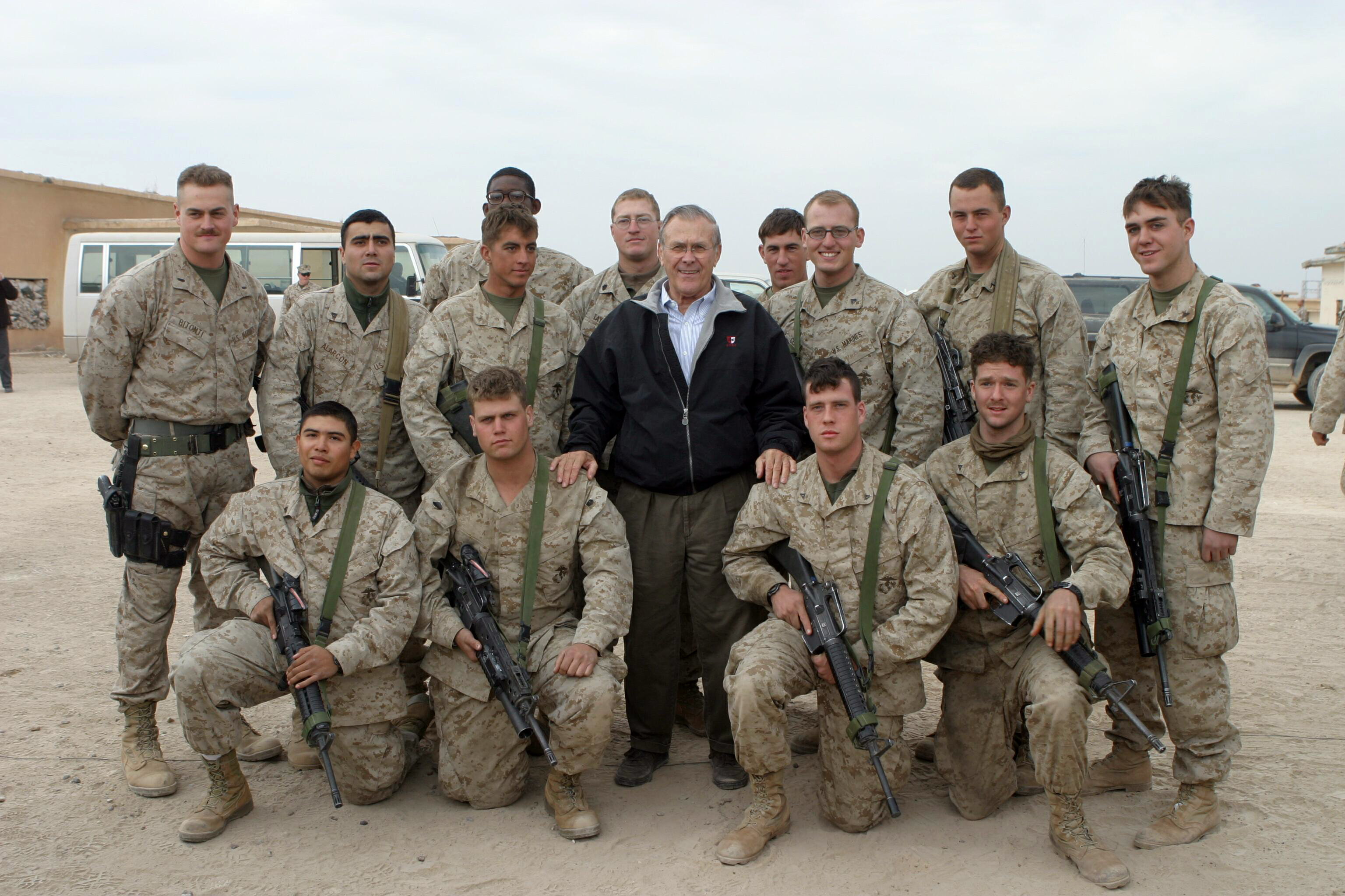 Camp Fallujah, Iraq (Dec. 24, 2004) - Secretary of Defense (SECDEF), Donald Rumsfeld takes a photo with some Marines at Camp Fallujah, Iraq. Rumsfeld visited with Marines, Sailors, and Soldiers to thank them for their hard work and dedication during the holiday season. U.S. Marine Corps photo by Lance Cpl. Daniel J. Klein (RELEASED)